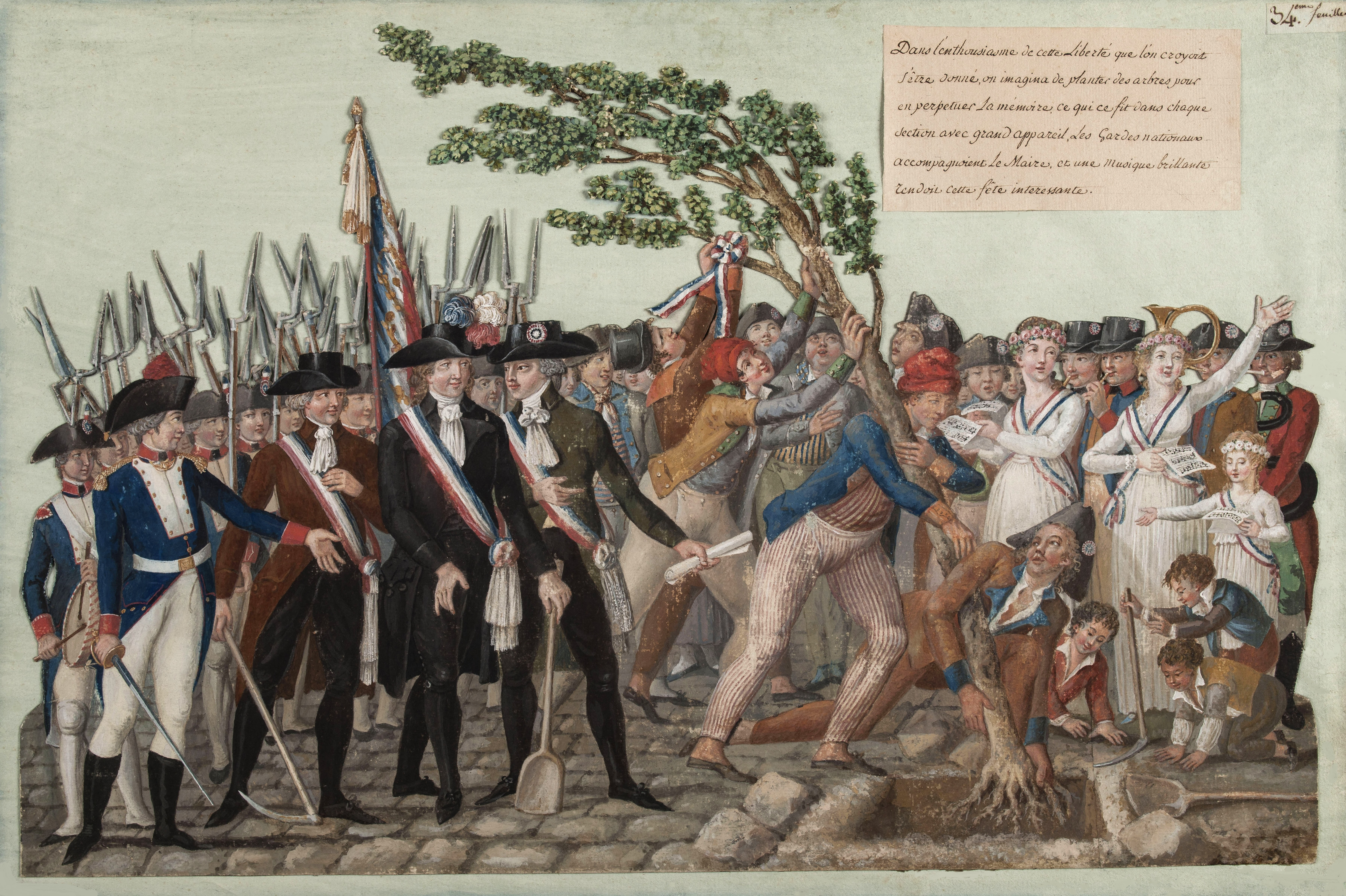 The Planting of a Tree of Liberty in Revolutionary France.